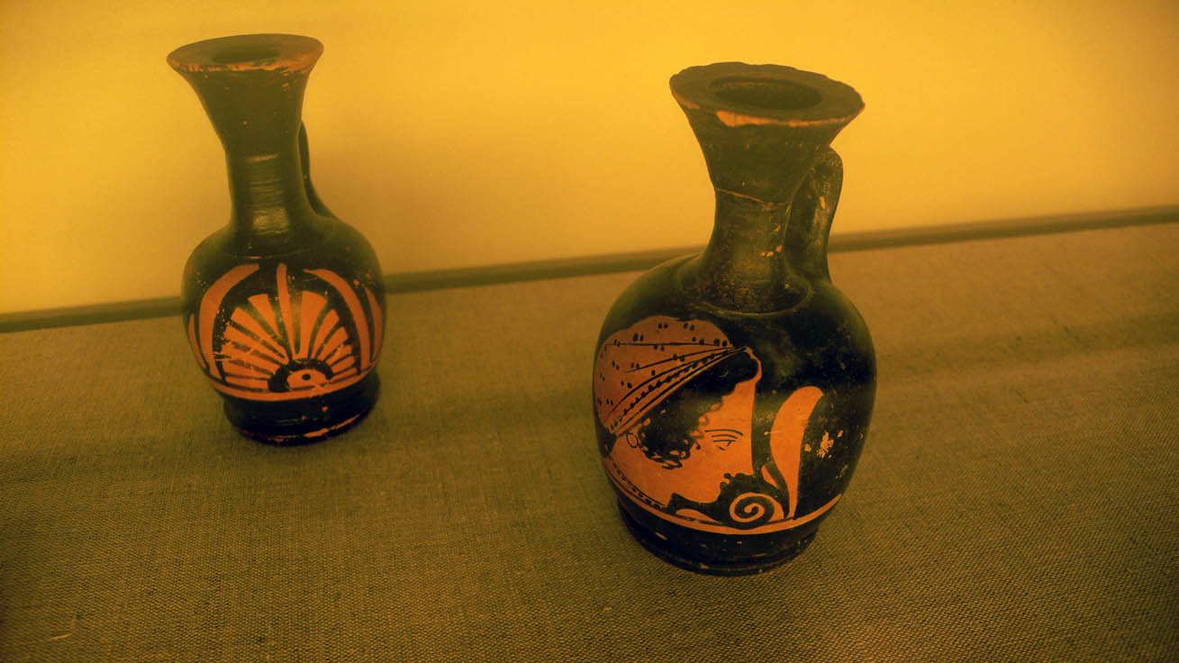 Greek Aryballoi found in the punic necropolis of Puig des Molins. Museum of Puig des Molins in Ibiza (Spain).